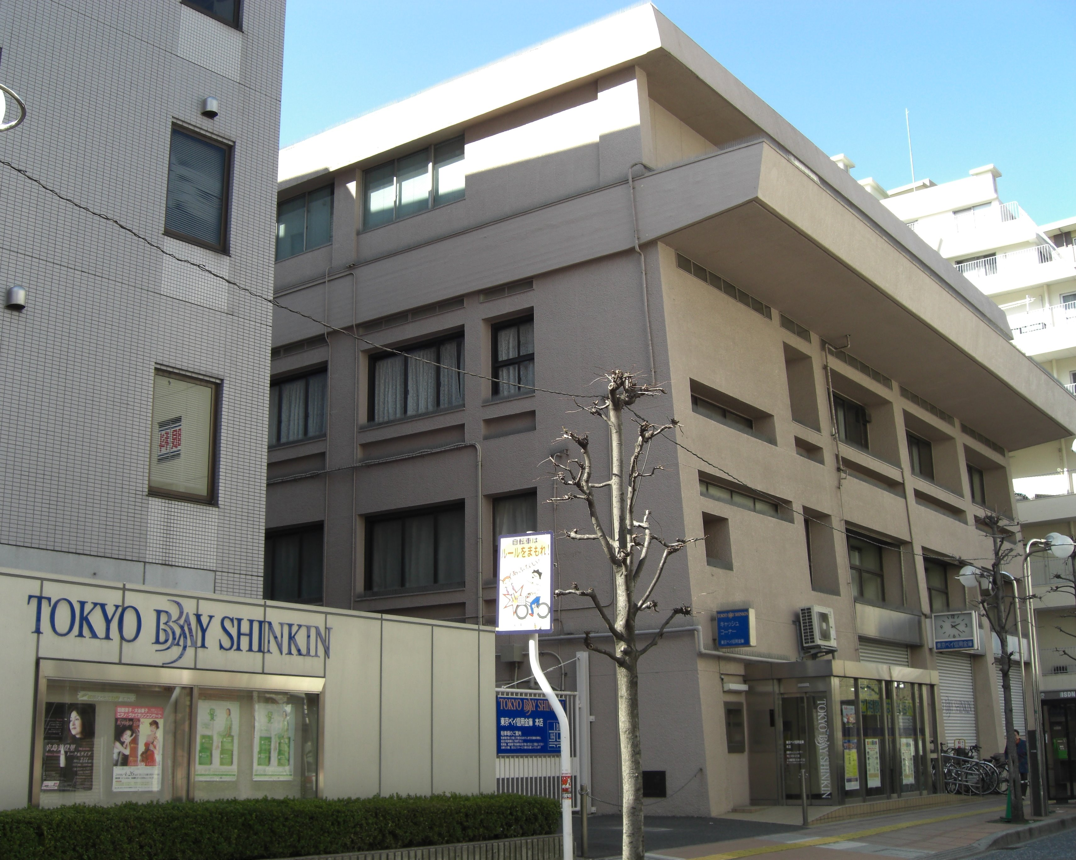 Tokyo Bay Shinkin Bank head office